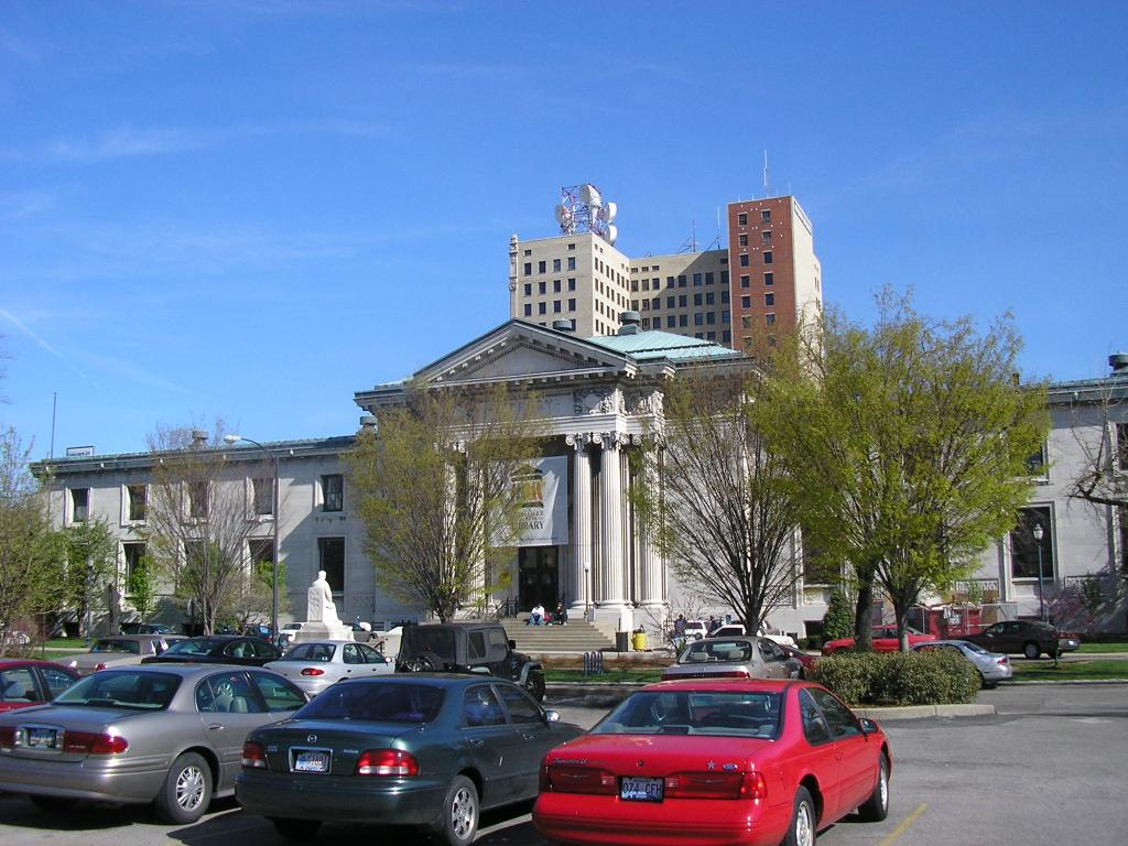 Main branch of the Louisville Free Public Library. Photo by me in late 2006.